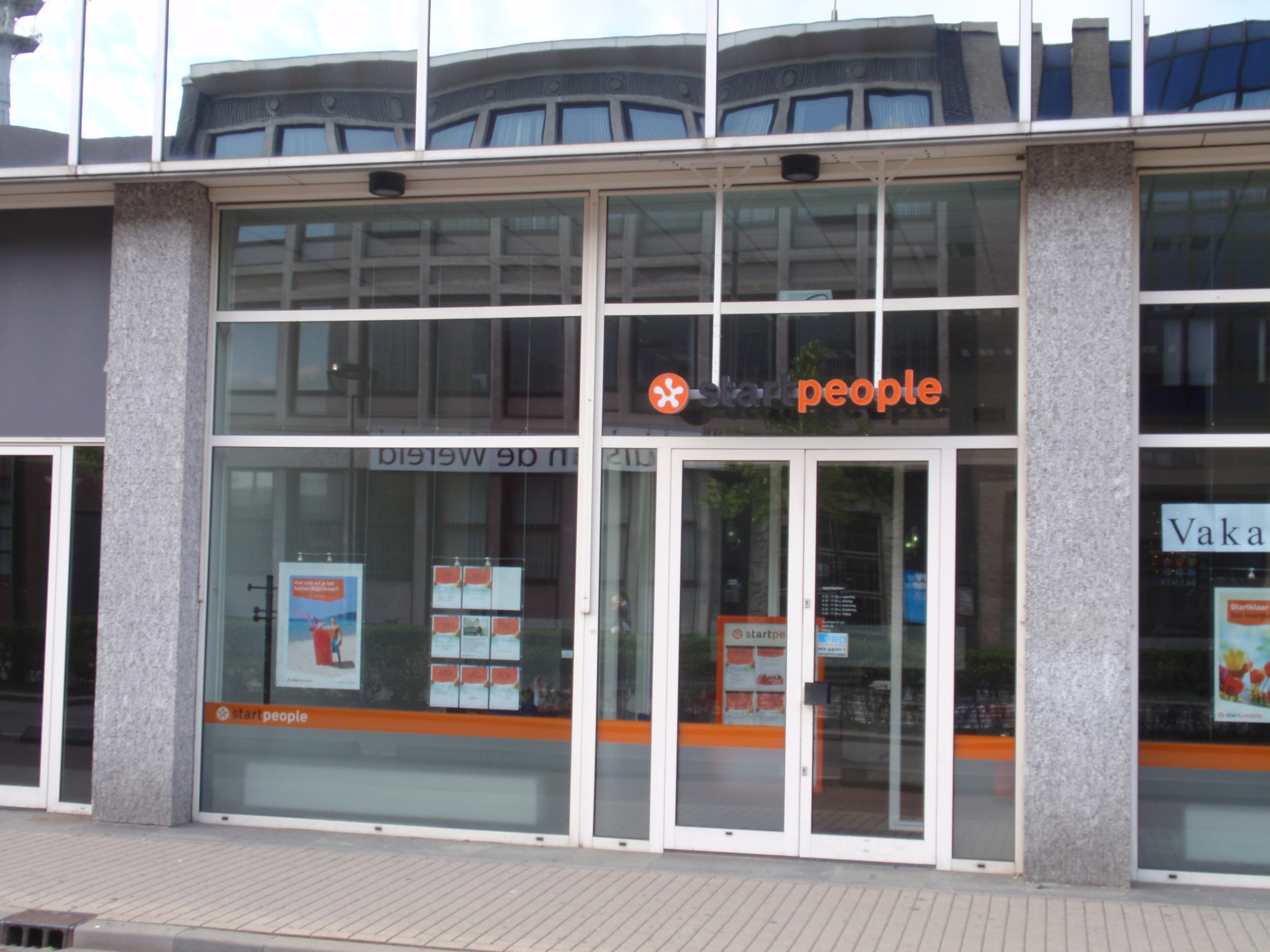 Start People, agency for temporary work (Tilburg)